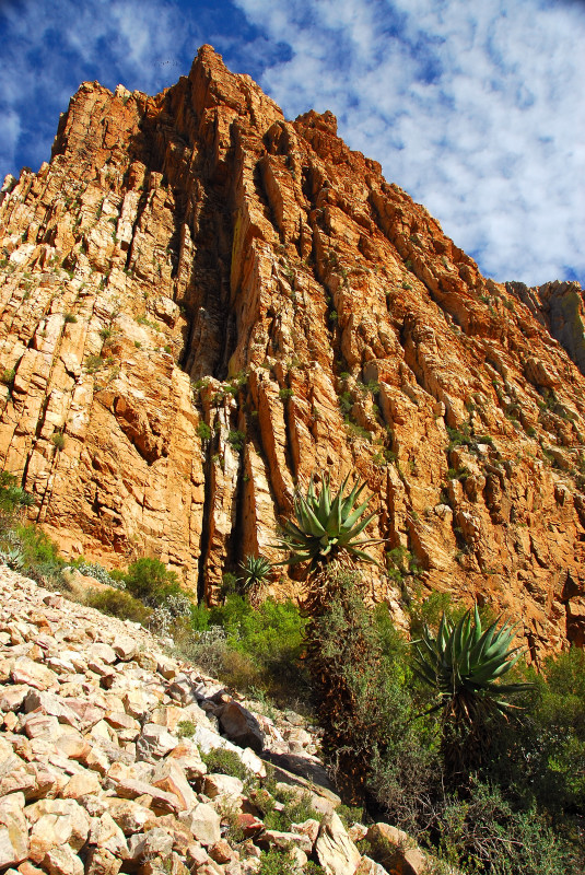 The 'Wall of Fire' is a spectacular 700m cliff face made of vertical standing quartzite of the upper Table Mountain Group,mountains.